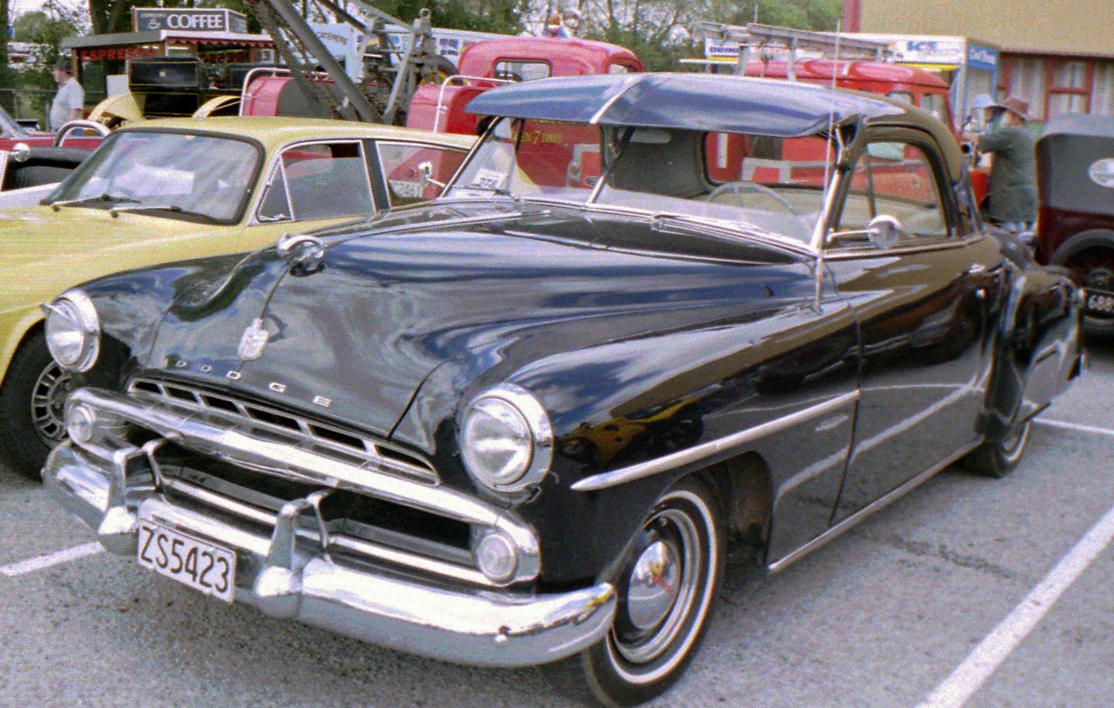 1952 Dodge Coupe Wayfarer Fluid Drive